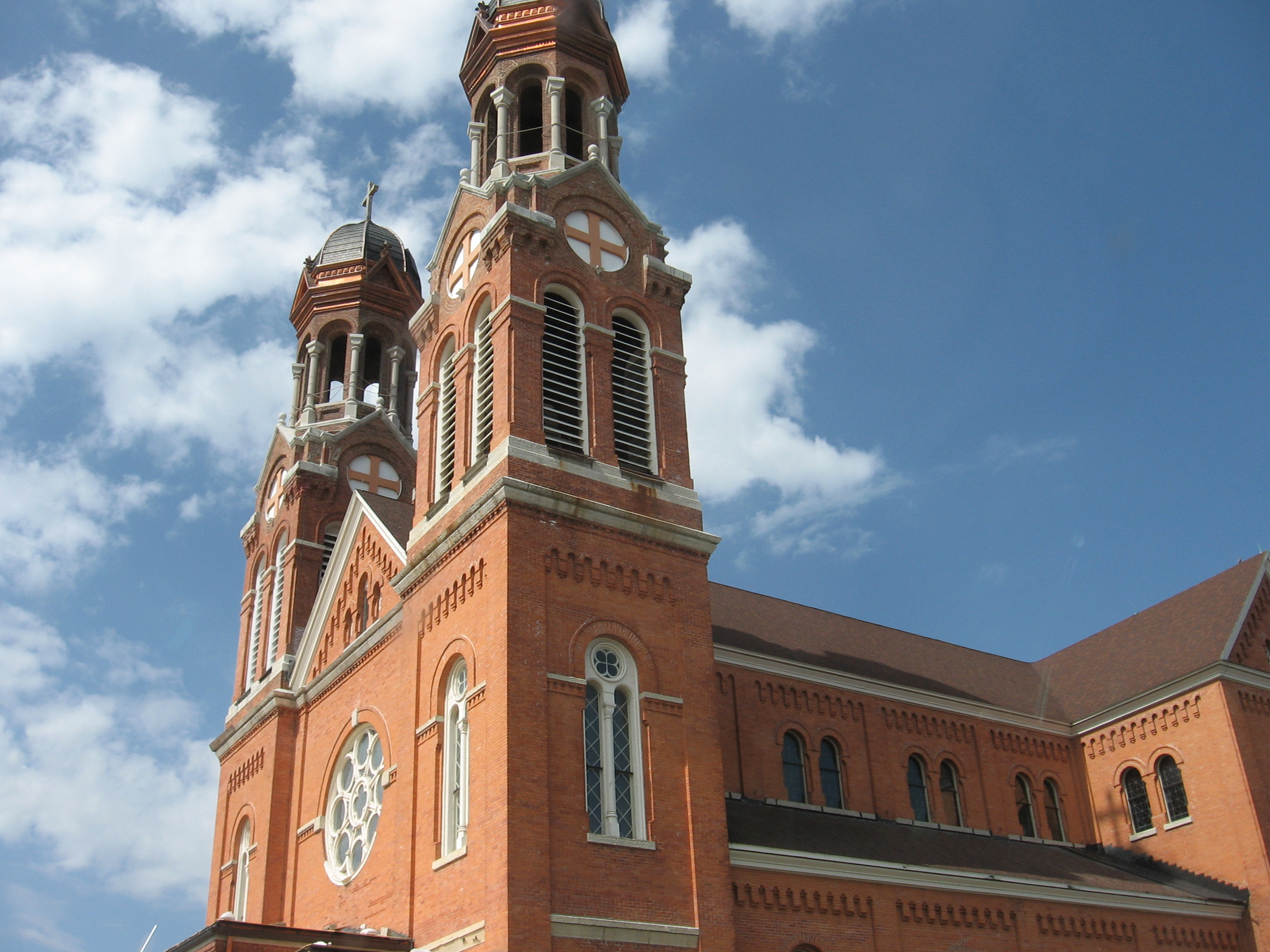 St. Francis Xavier Cathedral, mother church of the Roman Catholic Diocese of Green Bay